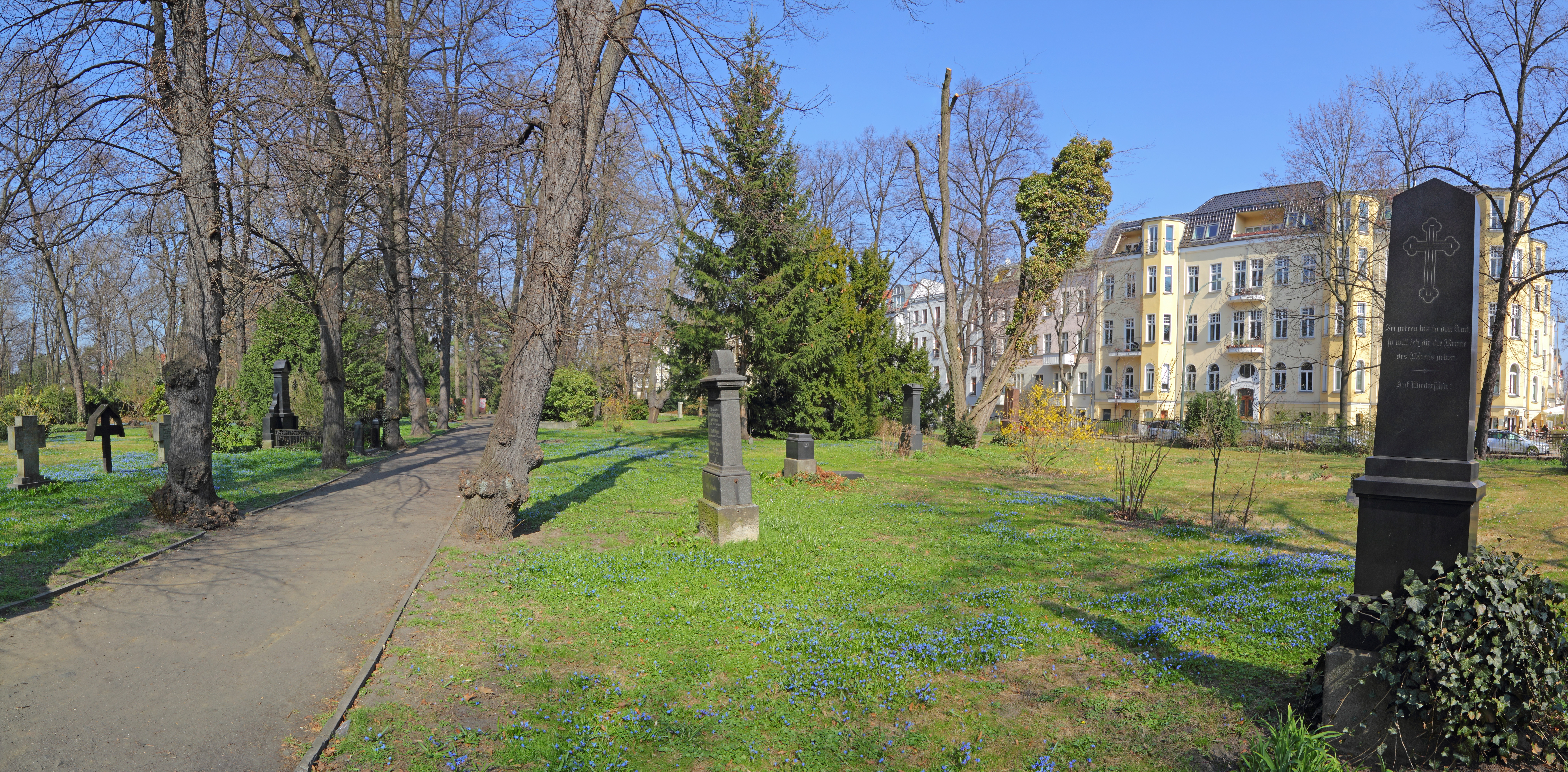 Old cemetery, Wilhelm-Kuhr-Straße, Berlin-Pankow